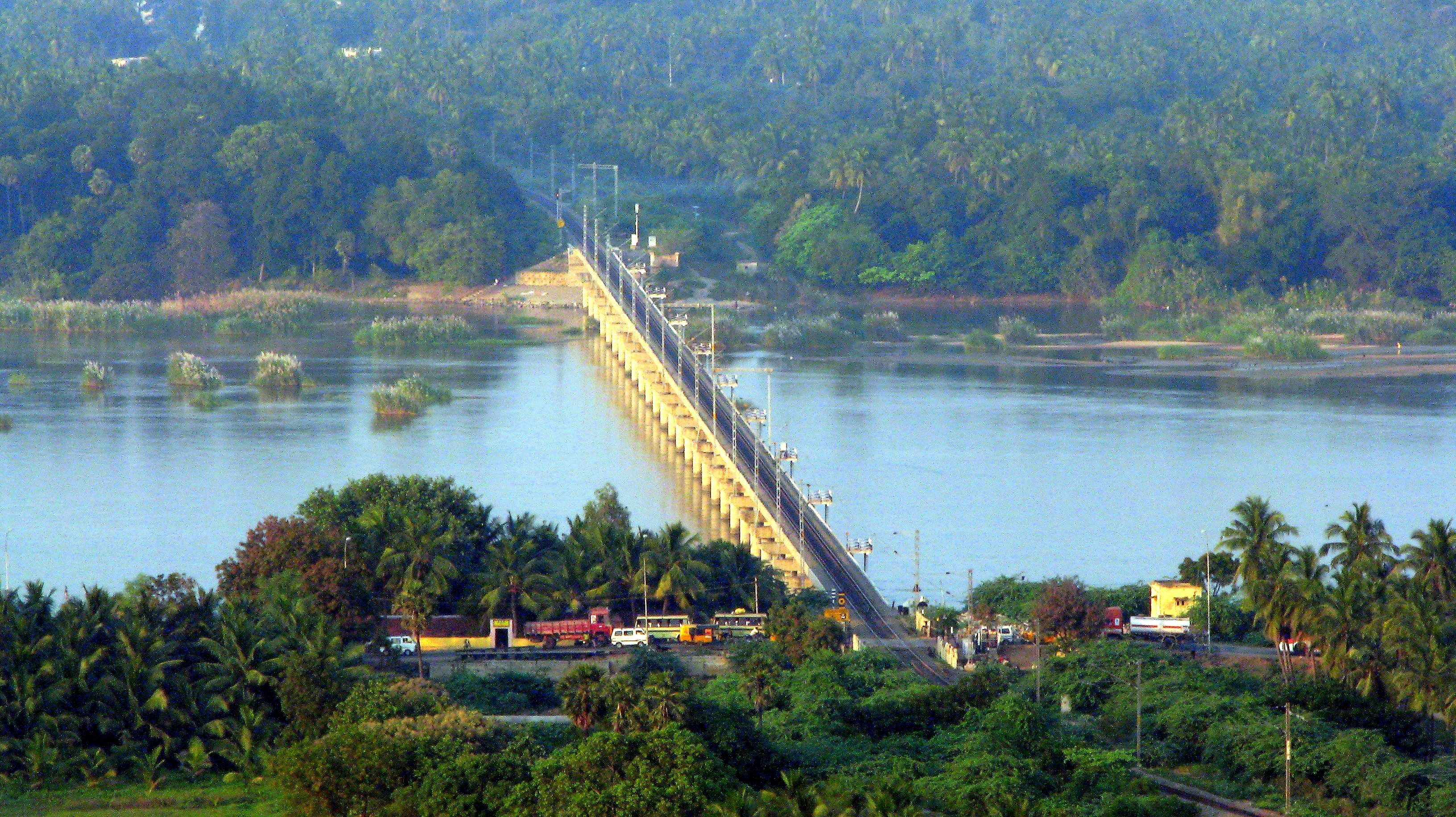 Rail Bridge across Kaveri river, Trichy